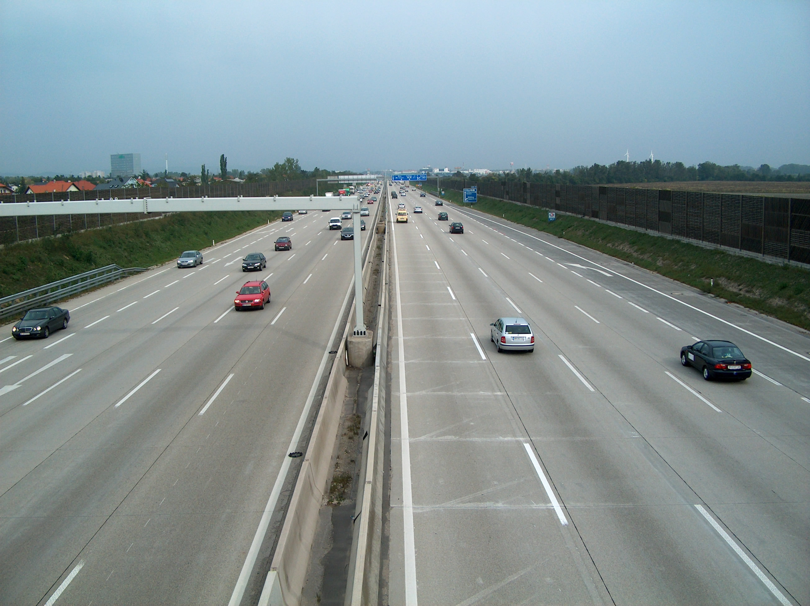 A2 Süd Autobahn, a motorway in Austria, between the exits Wiener Neudorf and Mödling/SCS